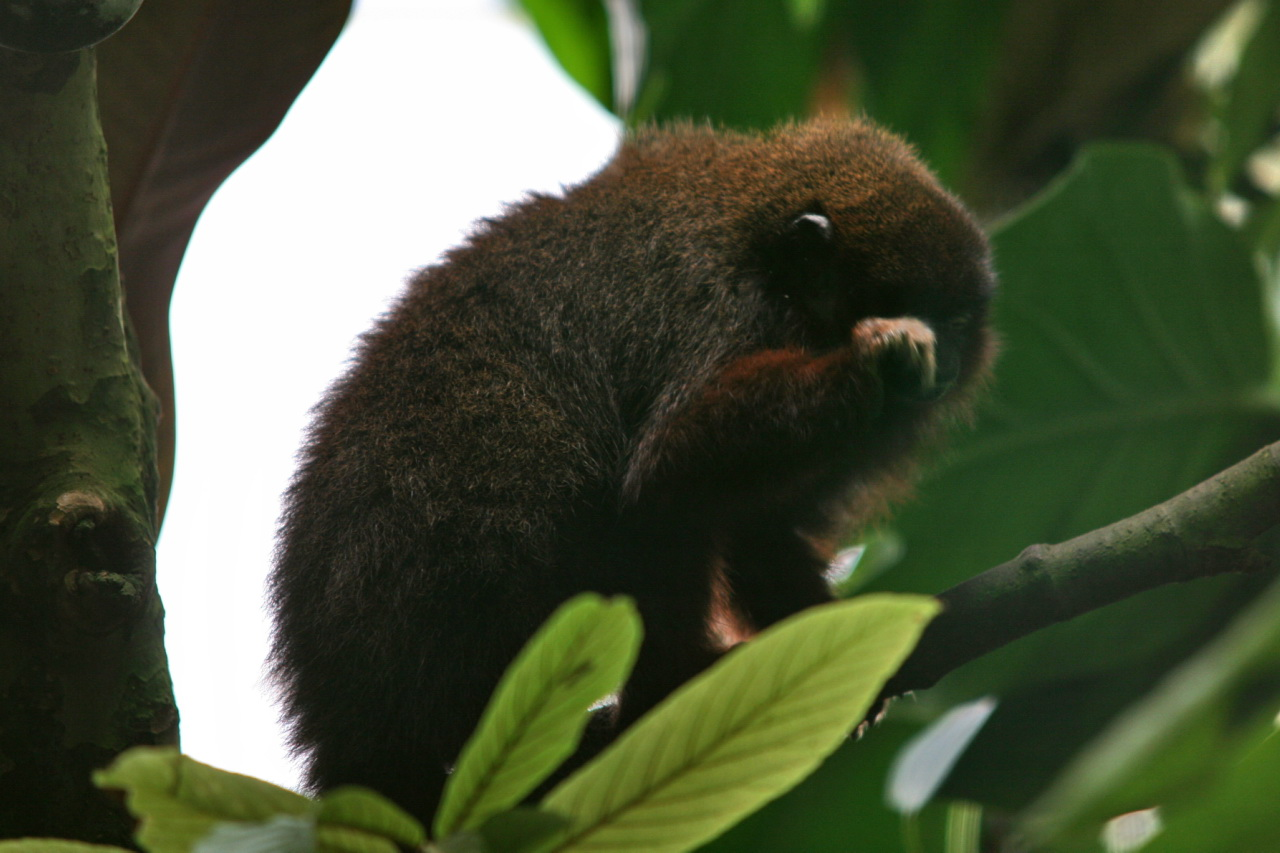 The Dusky Titi is found in South America; in a strip along base of Andes from Colombia to Bolivia and Paraguay; Brazil south of Amazon. Titi live in family groups are strongly territorial. A family group consists of an adult male and female and their offspring from several seasons with a group size of 3-4. Like all neotropical primates (except Aotus), Titi monkeys are strongly diurnal. Their daily feeding is always interrupted by a mid-day rest. They typically sleep together in a vine encrusted tree and often return to the same tree night after night.